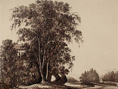 Drawing, pencil and watercolor